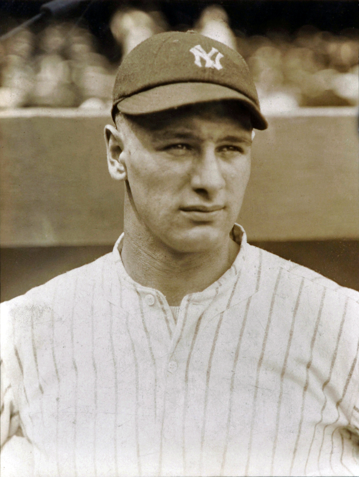 Lou Gehrig during his MLB rookie year